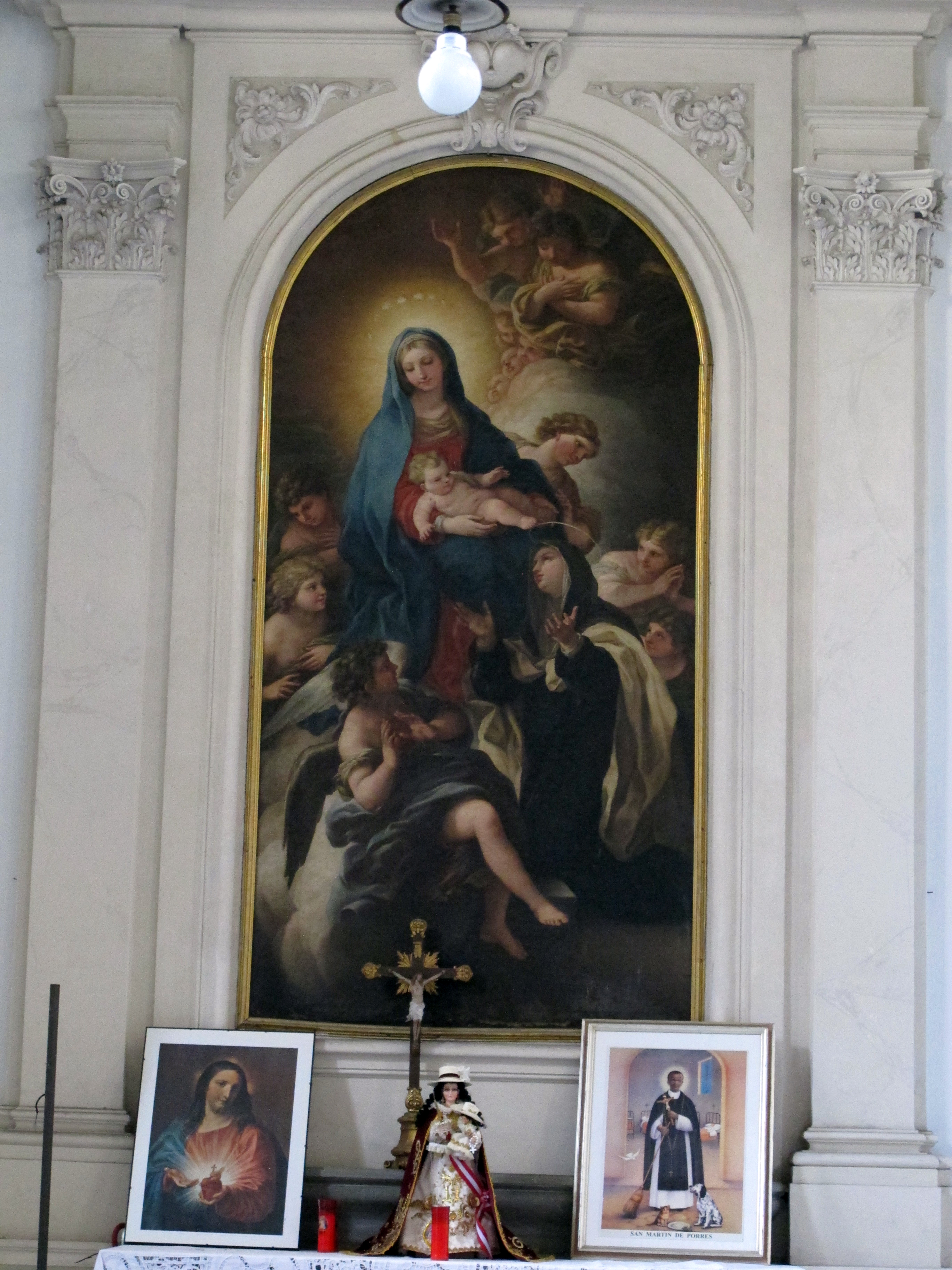 Santa Maria Maddalena de' Pazzi (Florence) - Interior